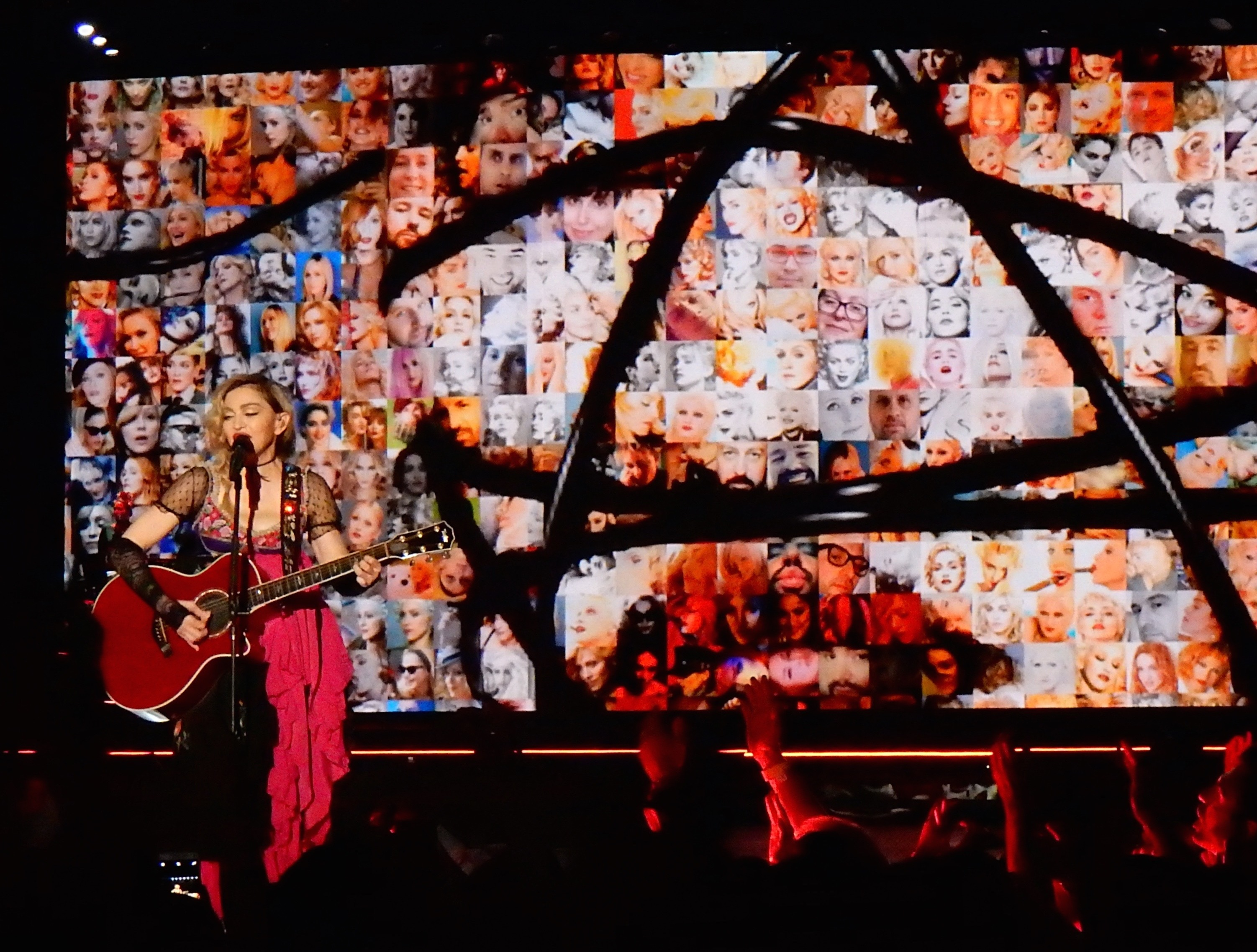 Madonna - Rebel Heart Tour 2015 - Paris 2